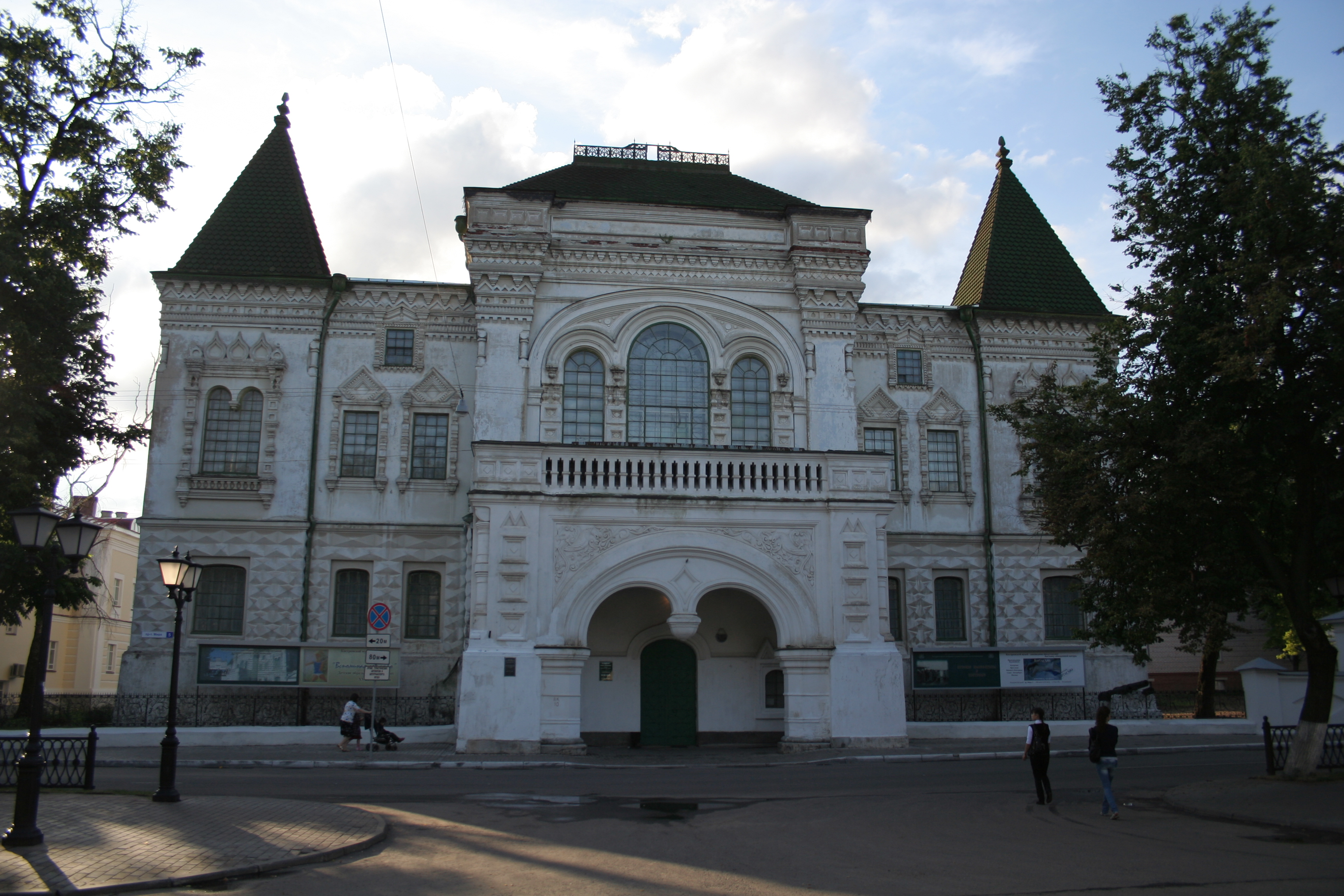 Arts museum in Kostroma, Russia.